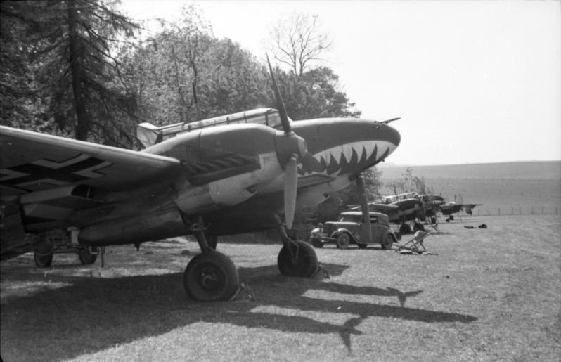 During the campaign in West Messerschmitt Me 110 with shark mouth painting (Probably ZG 76)KBK LW4